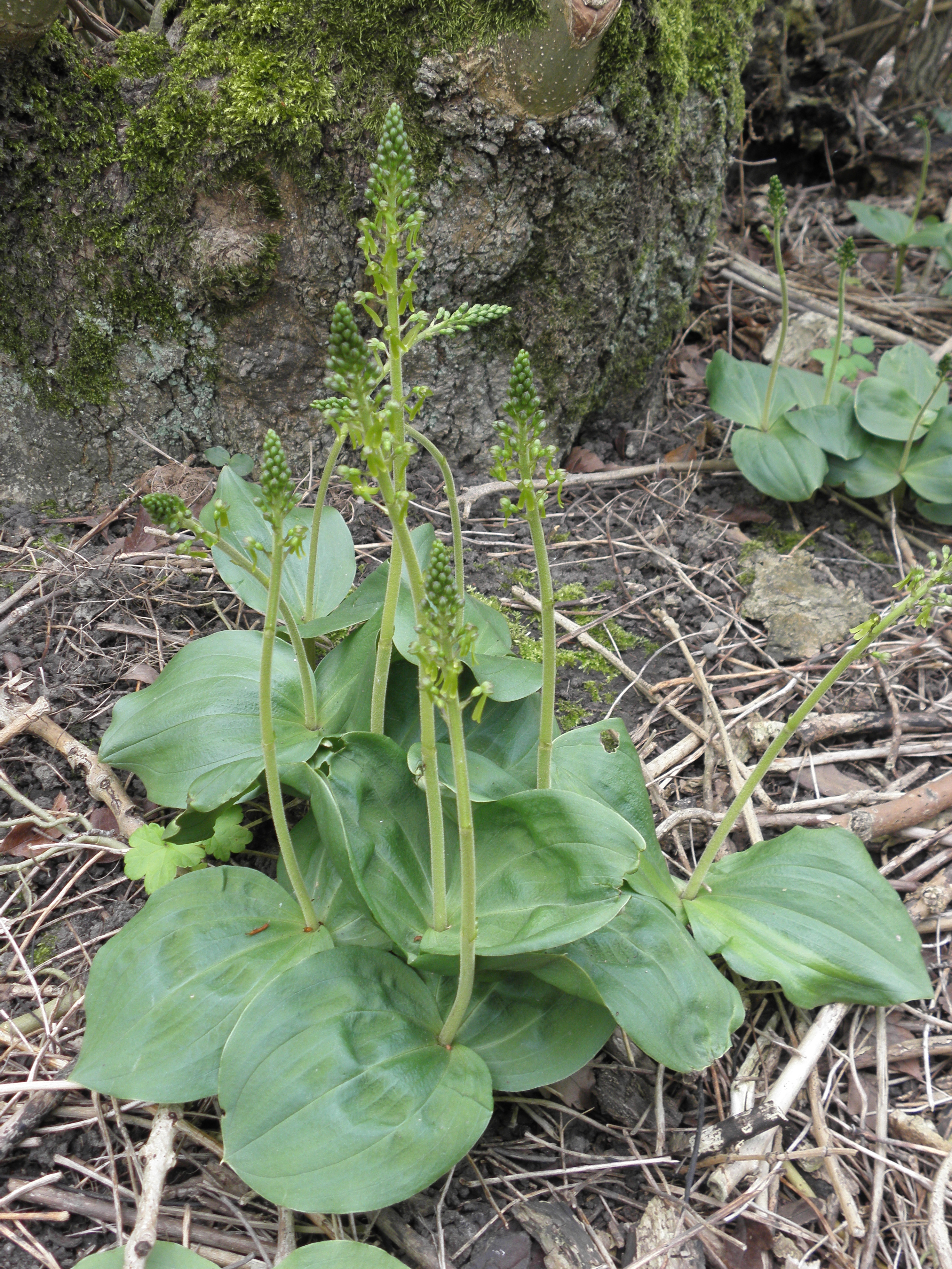 Common Twayblade